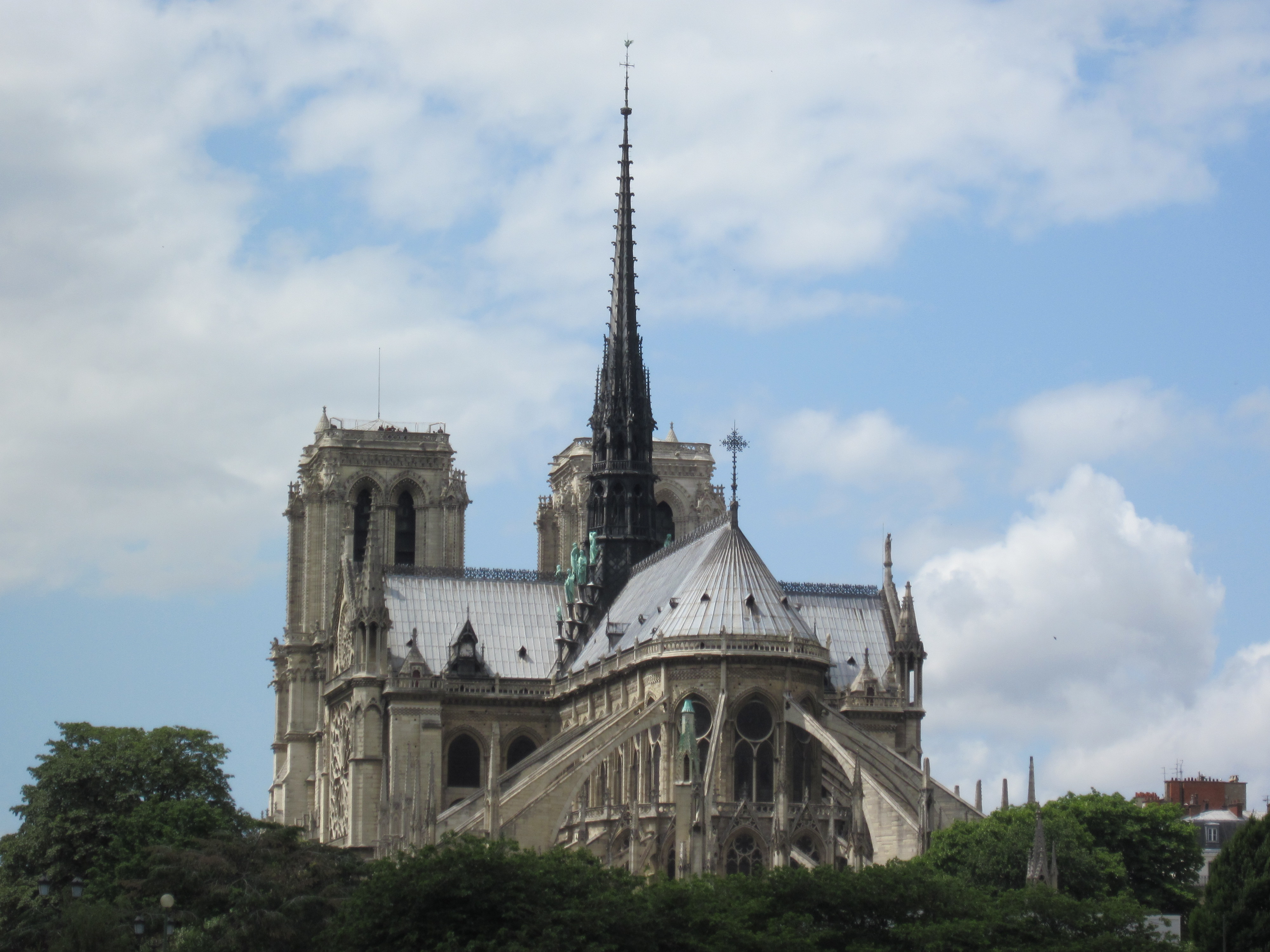 The Back of Notre Dame de Paris